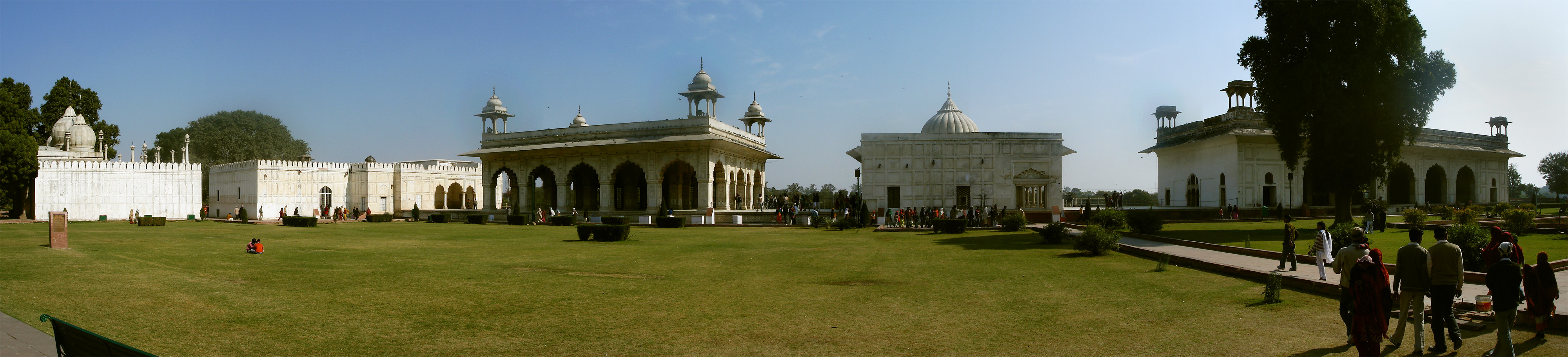 The buildings at the main courtyard, Red Fort, New Delhi, India.